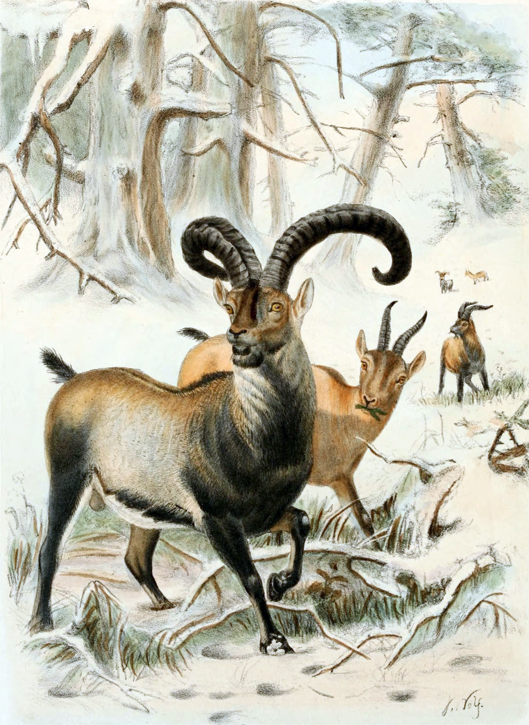 Plate 22 (Spanish Tur) from the book 'Wild oxen, sheep & goats of all lands, living and extinct' (1898) by Richard Lydekker. From a sketch by Joseph Wolf in the possession of Lady Brooke. The ram in the foreground was killed in the Val d'Arras.